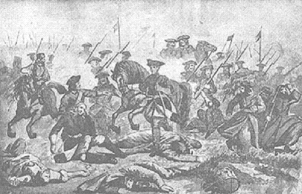 King Charles XII. in the battle of Holowczyn. 1708